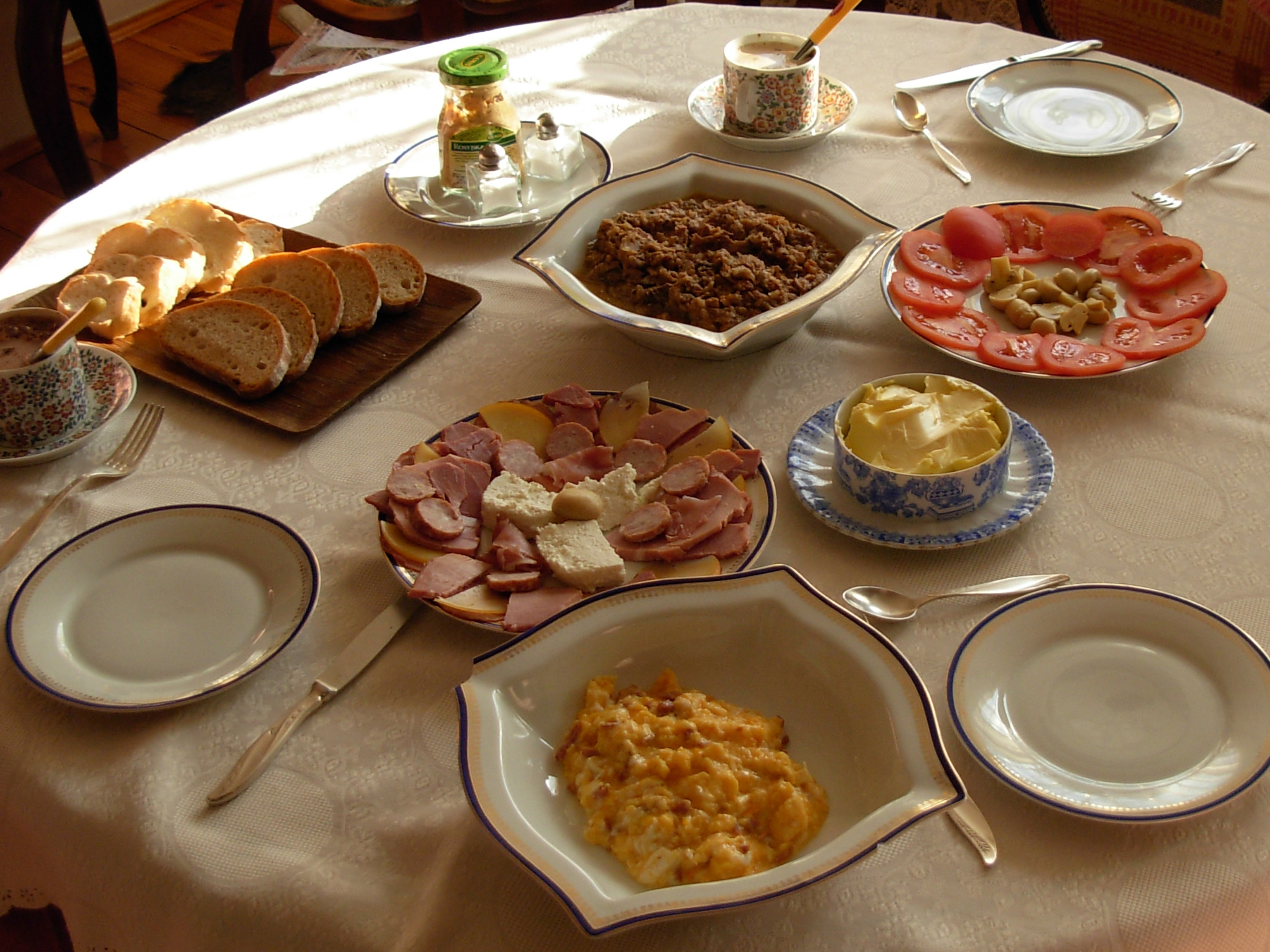 Christmas breakfast, Poland. My photo.